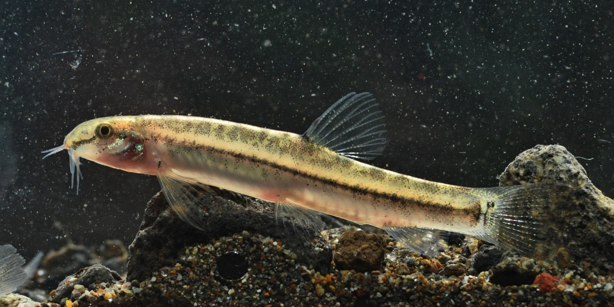 Lepidocephalichthys hasselti, ca 29 mm SL. From Banyumas, Central Java, Indonesia.